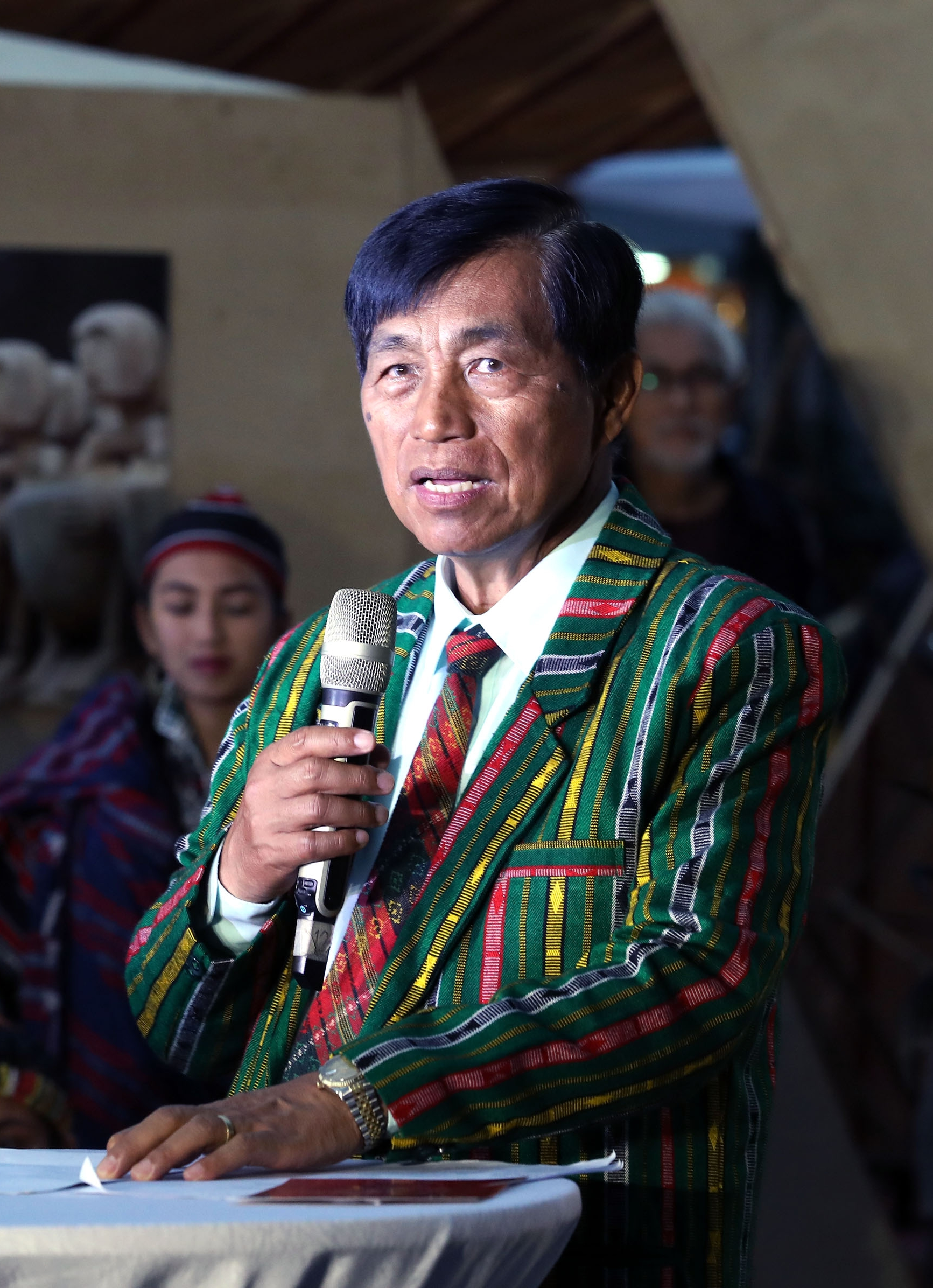 Baguio City Mayor Mauricio Domogan delivers his welcome remarks during the launching of Creative Baguio: "An Exhibition of Hub Showcase of Crafts and Folk Arts” and the premier city as a United Nations Educational,Scientific and Cultural Organization (UNESCO) Creative City held at the People’s Park in Baguio City on Saturday (Feb. 10, 2018). (PNA photo by Joey Razon)